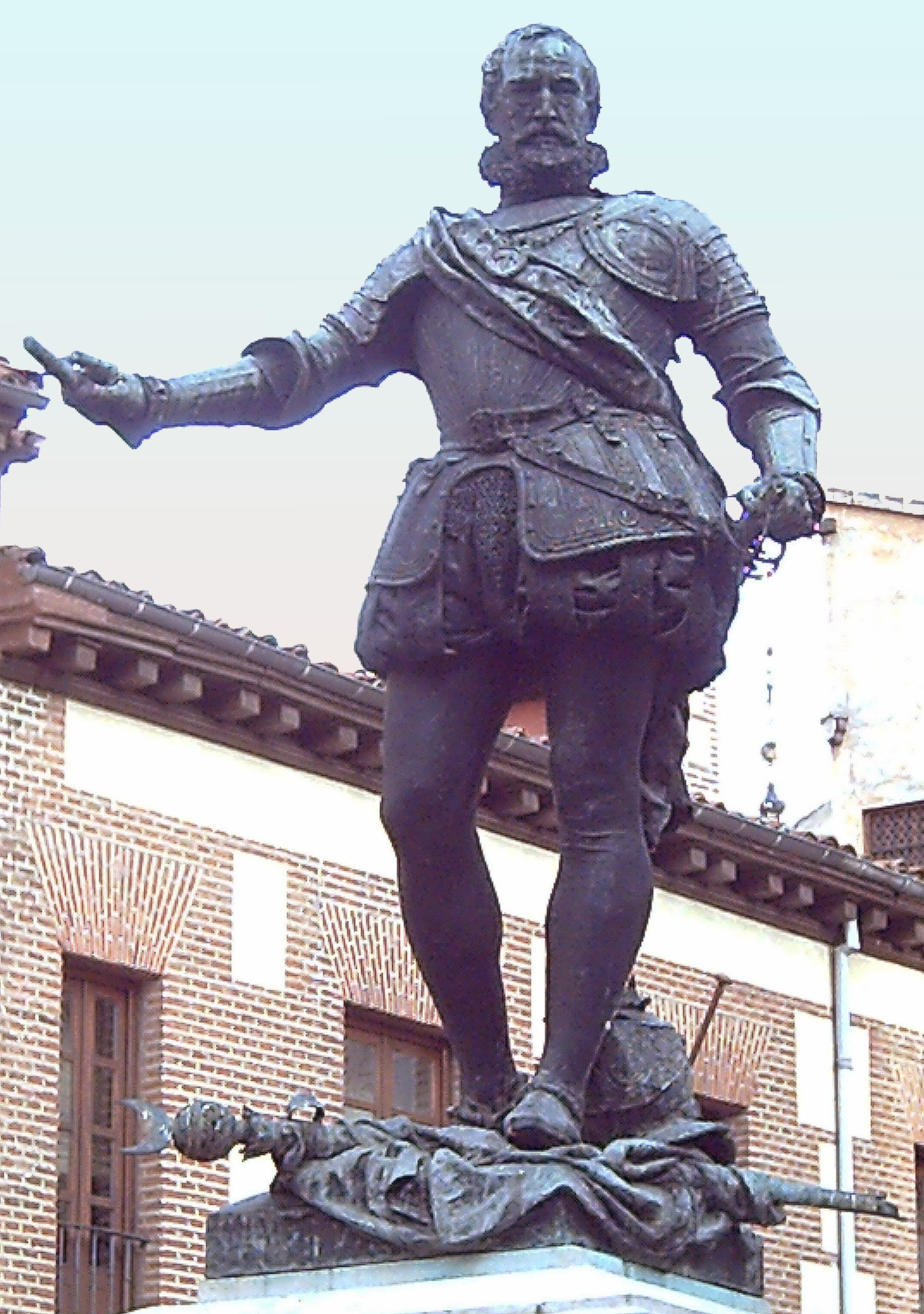 Bronze statue of Álvaro de Bazán (1526–1588) by sculptor Mariano Benlliure (1862–1947). 2.20 metres high. It´s part of the monument at the Plaza de la Villa (square) in Madrid (Spain) inaugurated in 1891.